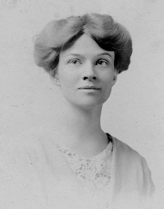 A portrait of Katharine Houghton Hepburn, American suffragist and birth control advocate. This photograph was taken in the second decade of the 20th century when Mrs. Hepburn was president of the Connecticut Woman's Suffrage Association ( about 1911 - 1917)